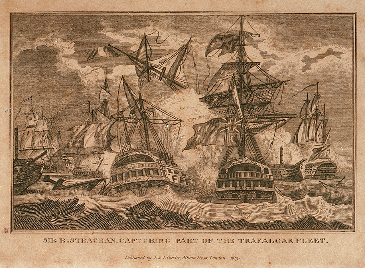 Sir R Strachan capturing part of the Trafalgar Fleet